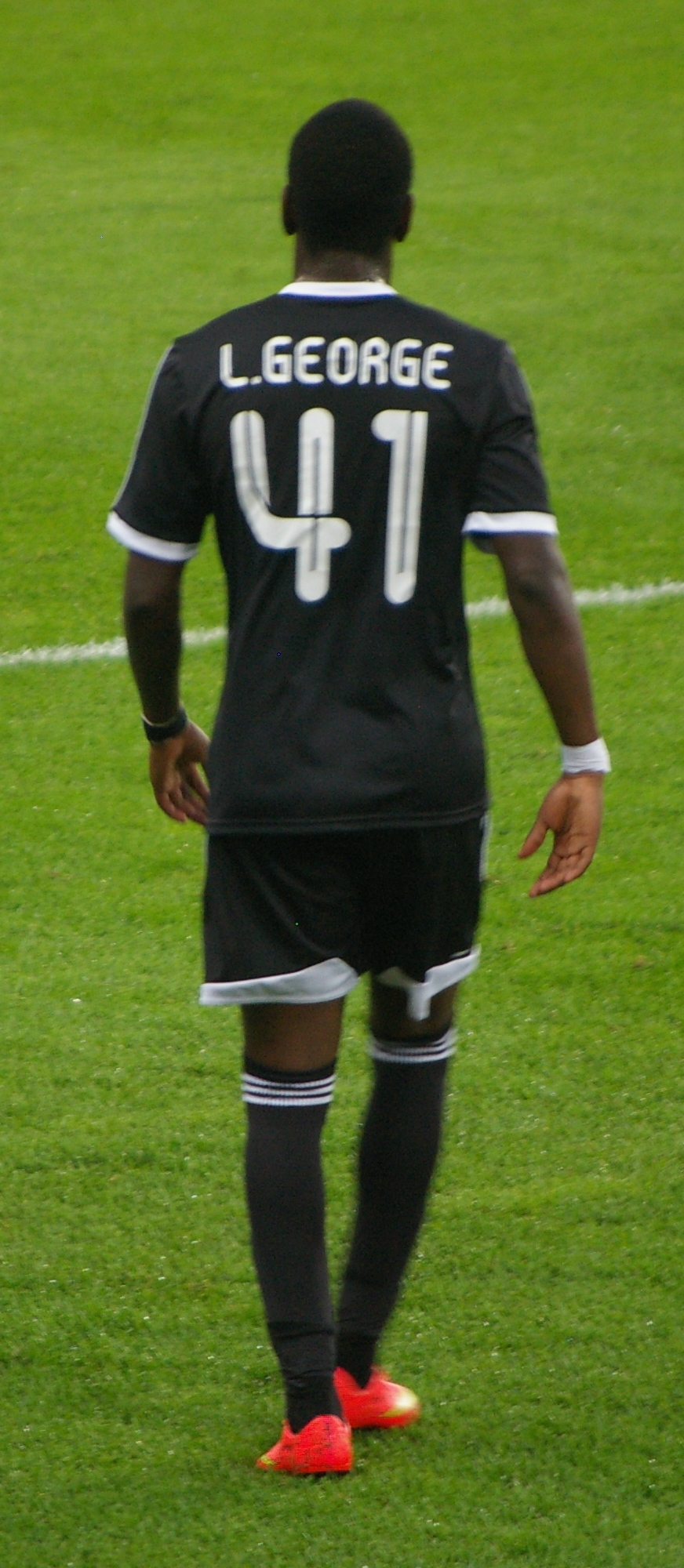 Championsleague Qualifier 3rd round